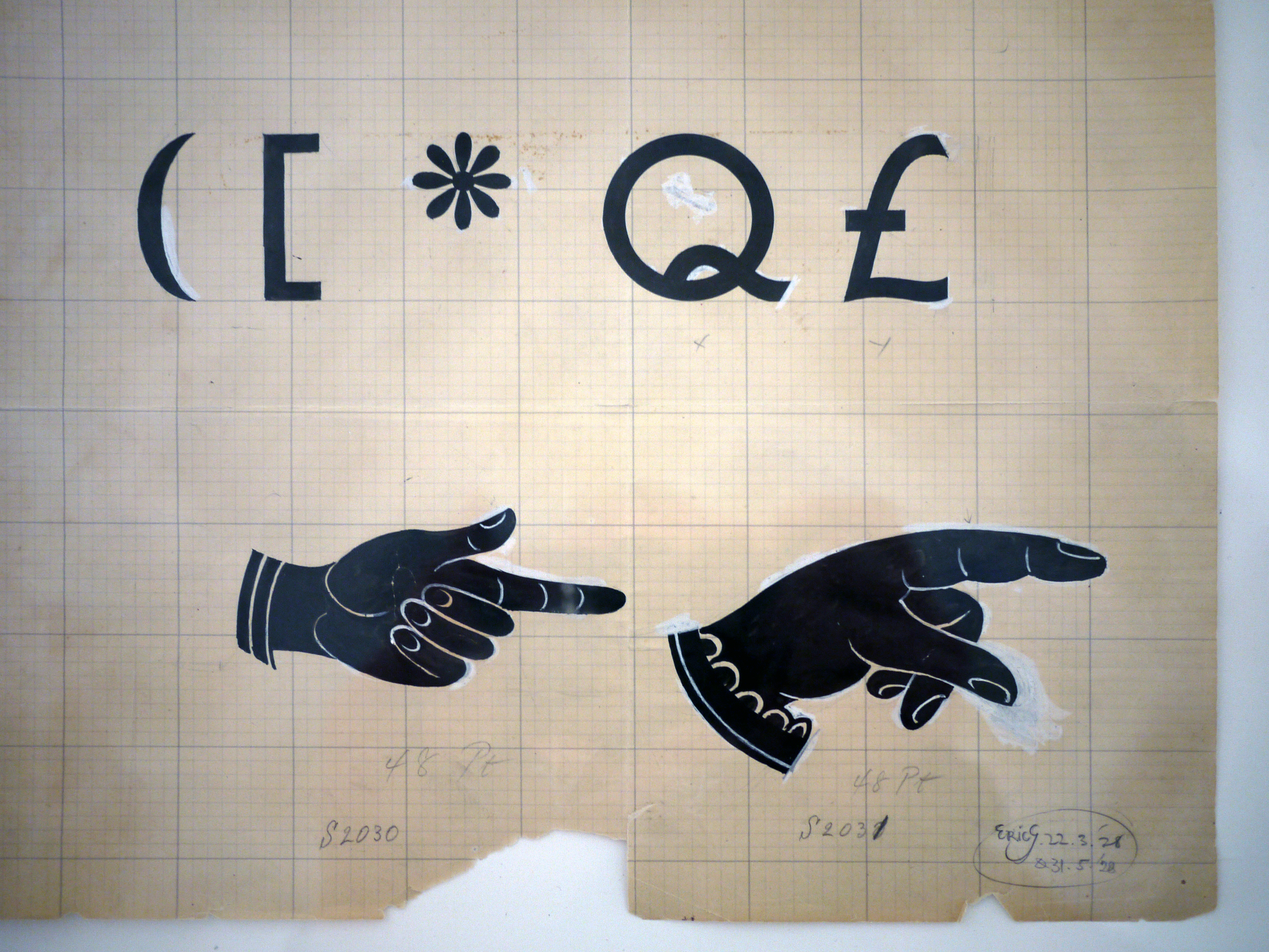 Monotype NTU From a Monotype exhibition at Nottingham Trent University. Transcription: ([*Q£ ☛🖛